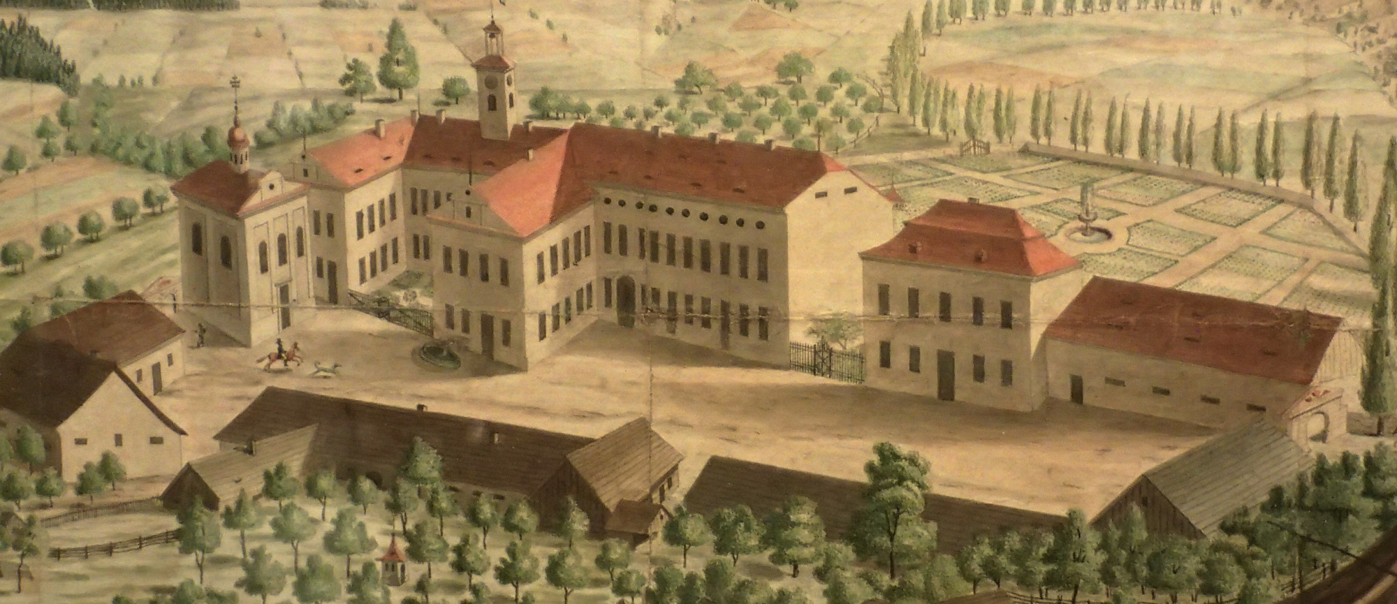 Zámecký areál Žampach - kolem roku 1840, zdroj: Městské muzeum Žamberk (výřez z obrazu)